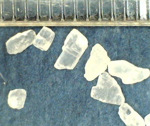 Micrograph of Sea Salt taken with a USB MIcroscope. The markers in the upper portion of the photomicrograph are 1 millimeter units. Sea Salt is a coarse version of ordinary table salt, sodium chloride. The size, shape, and irregularities can be contrasted to a similar photomicrograph of ordinary table salt, shown here.